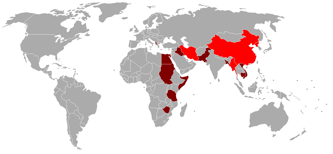 Current operators of the Shenyang J-6 in bright red and former operators in dark red